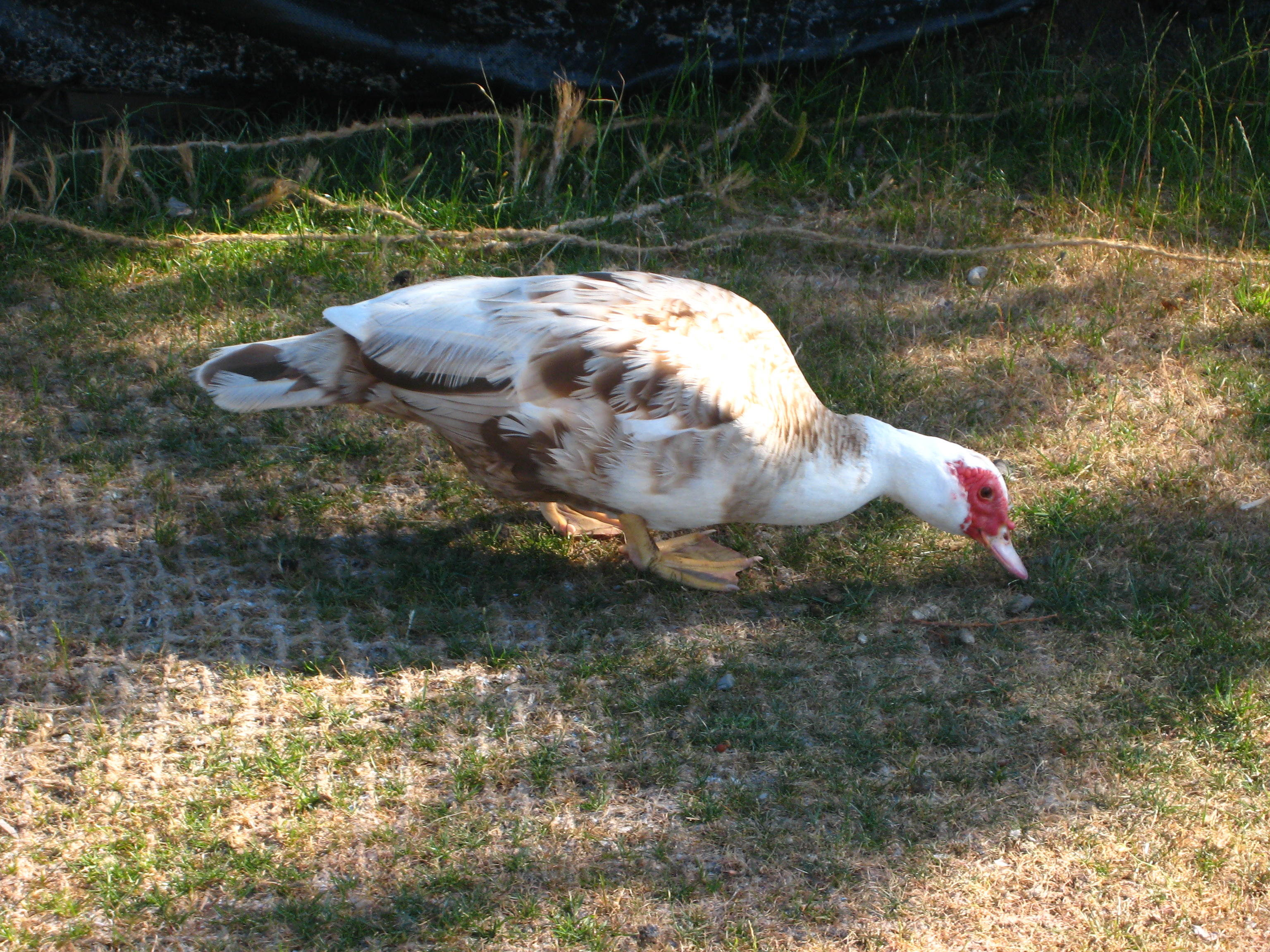 Moscovy duck Cairina moschata photographed on the southeast shore of Lake Union, Seattle WA.